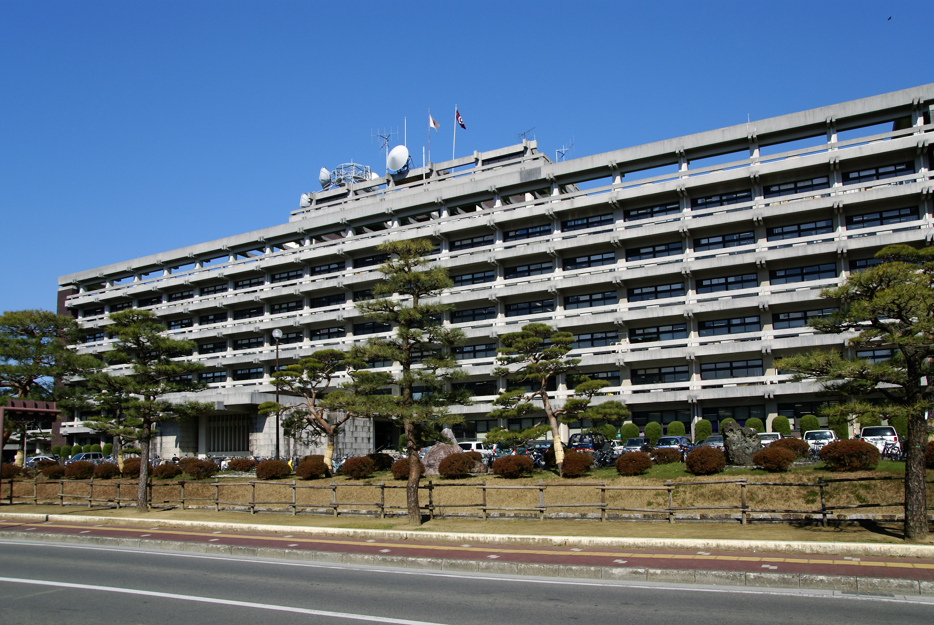 Kochi Prefectural Office Building in Kochi, Kochi prefecture, Japan